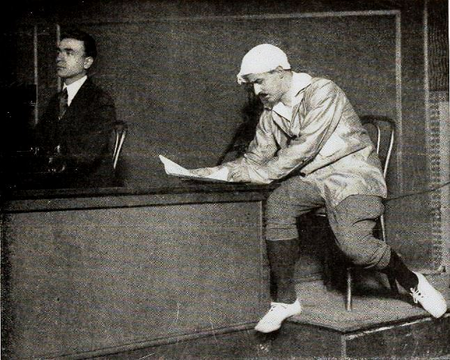 Choreographer Michel Fokine directing the rehearsals of the ballet Aphrodite, page 55 of the December 1919 Shadowland.